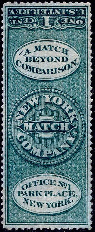 Image of New York Match Co proprietary stamp, 1c, 1871